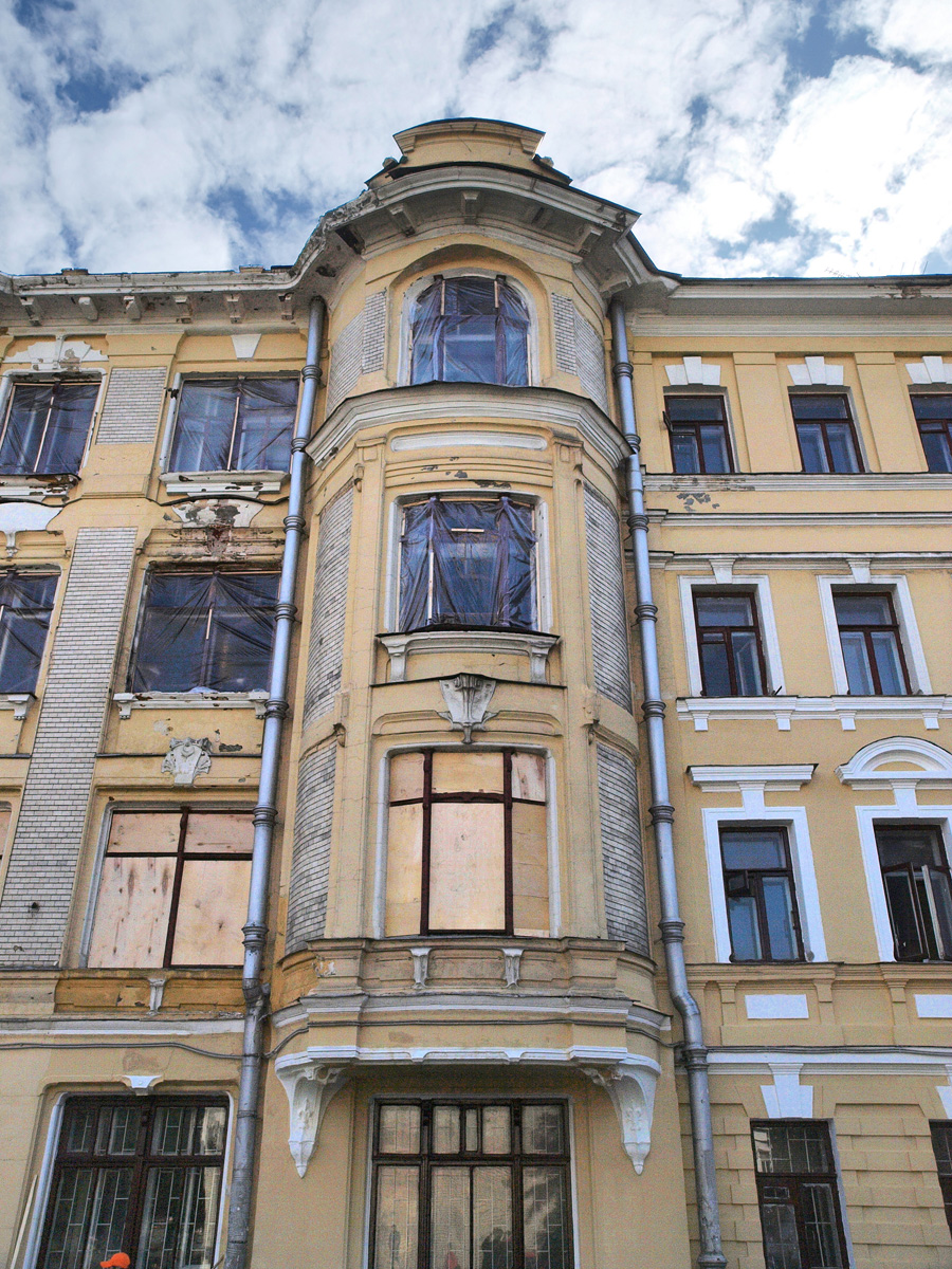 Former Bykov building in Moscow, designed by Lev Kekushev, was burnt down 16/09/2009 to make way for new development.